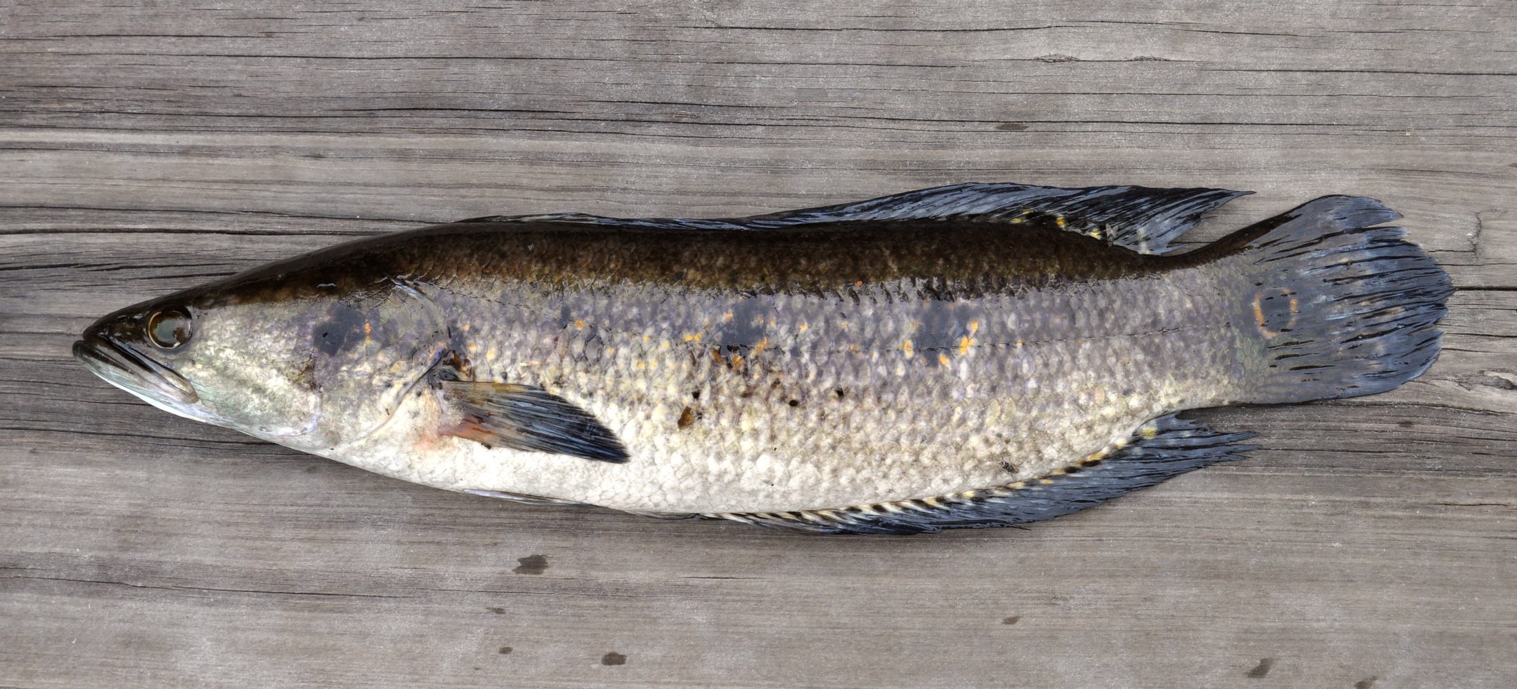 Channa pleurophthalma, ca. 30cm SL (standard length). From Central Kalimantan, Indonesia.